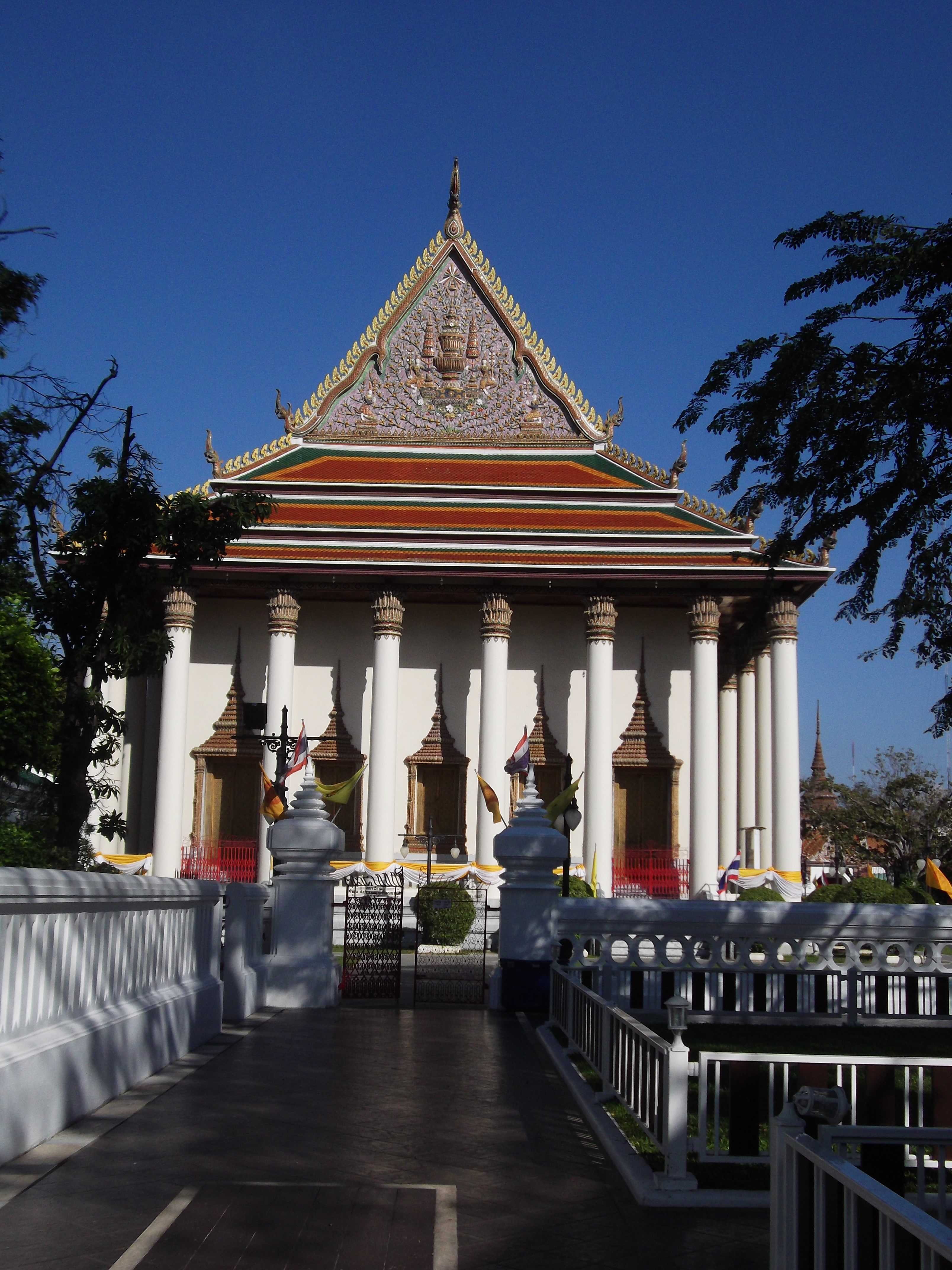 The ubosot (main chapel) of Wat Thep Sirinthrawat Ratchaworawihan, Pom Prap Sattru Phai District, Bangkok